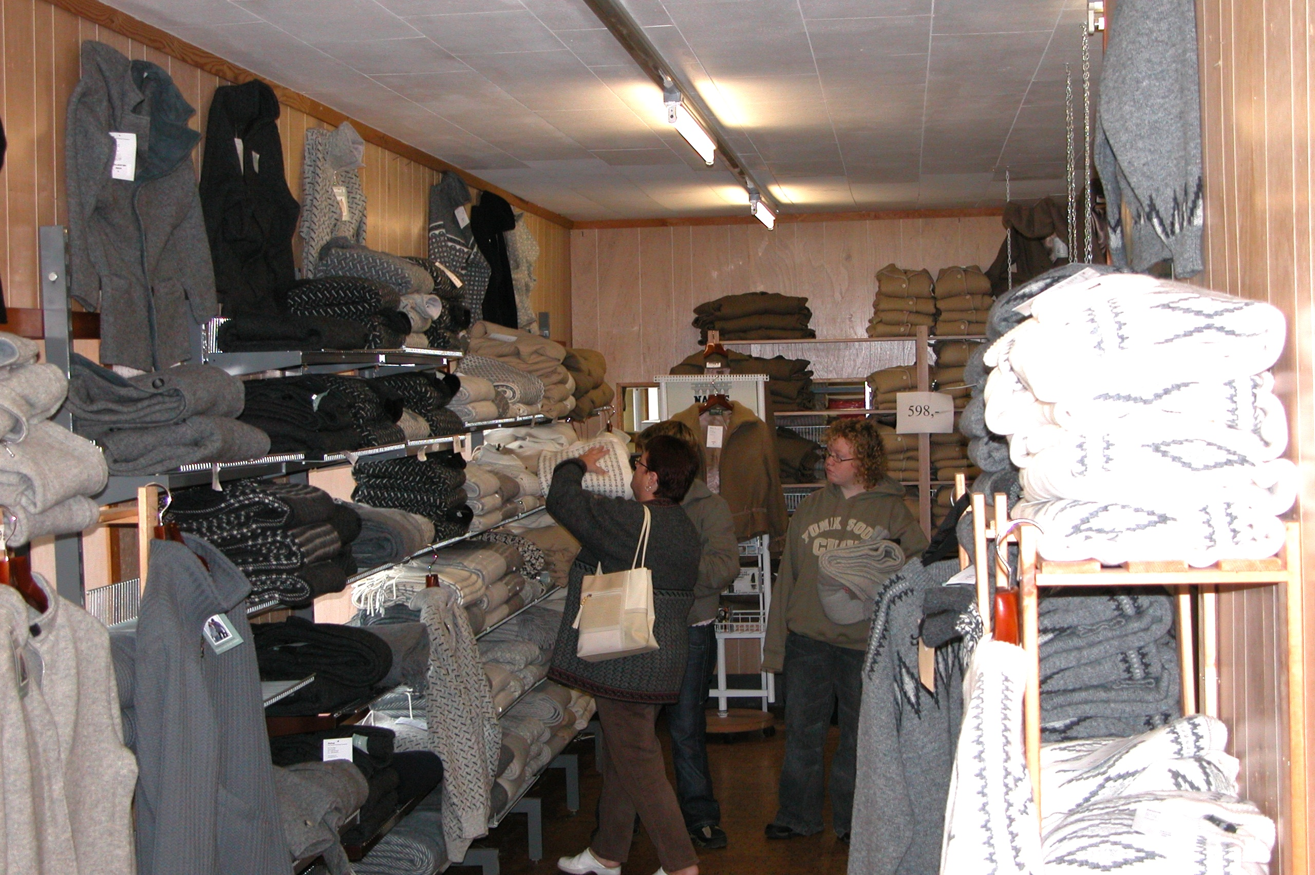 Shop of the wool factory Tøting in Syðrugøta on Eysturoy, Faroe Islands.